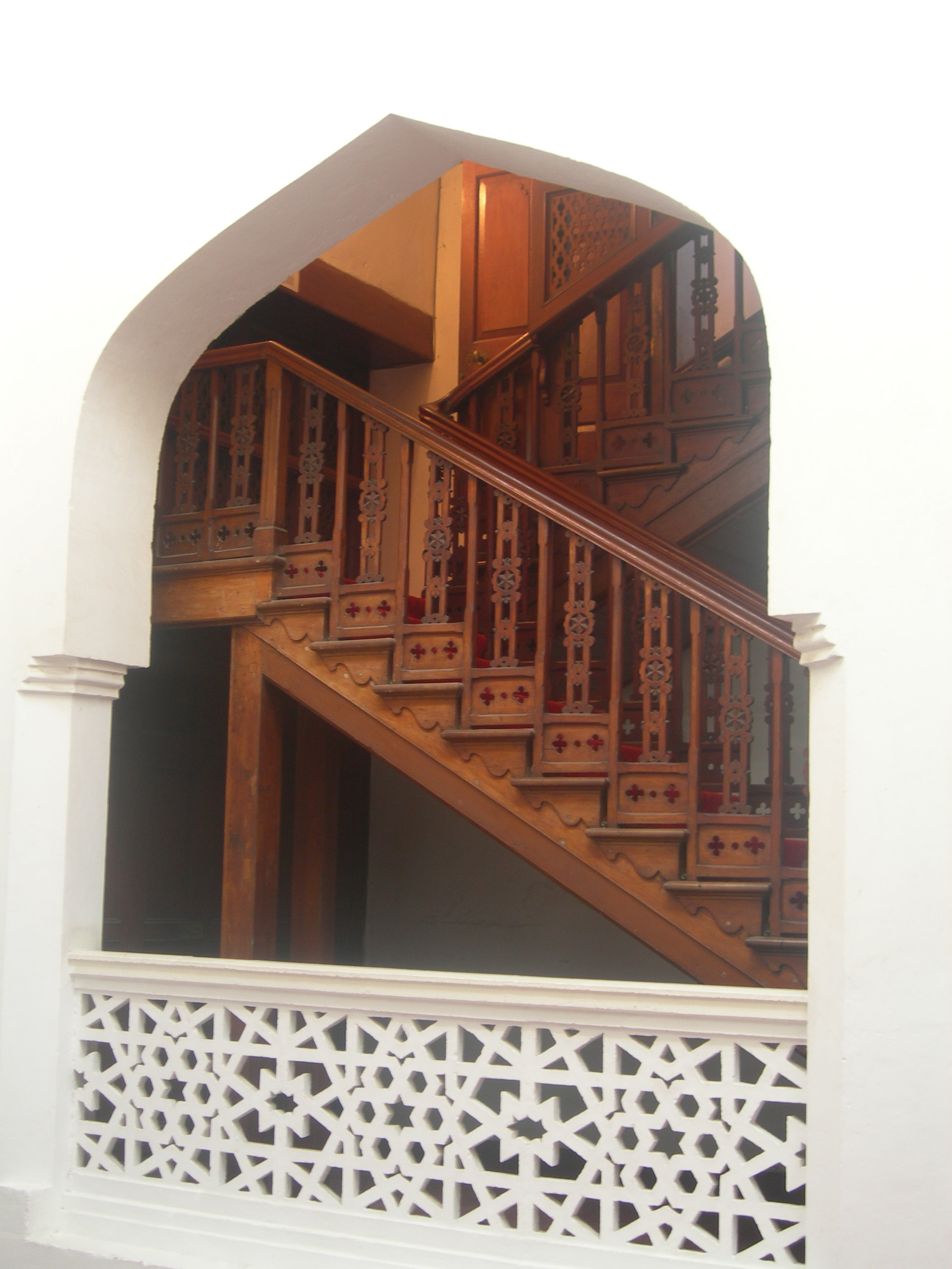 Stairway in Beit al Ajaib (House of Wonders) — in Stone Town, Category:Zanzibar City. Original caption states:Beit-el-Ajaib (The House of Wonders) The House of Wonders is the most imposing structure on the sea front in Stonetown. Built in the 1880's as a ceremonial palace and was used as headquarters of the colonial administration. It was later converted into a school and as a museum for the ruling party after the Revolution. The House of Wonders was the first ever to use electricity and utilize the use of the "lift" to the amazement of the local people - hence it is called the House of Wonders. Stonetown, Zanzibar Tanzania East Africa, November 2005"